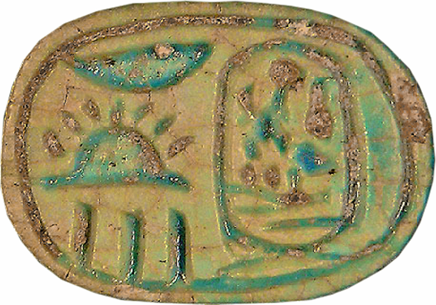 This amulet should secure Akhenaten's epiphany, as well as his royal authority, and guarantee for a private owner his royal patronage.